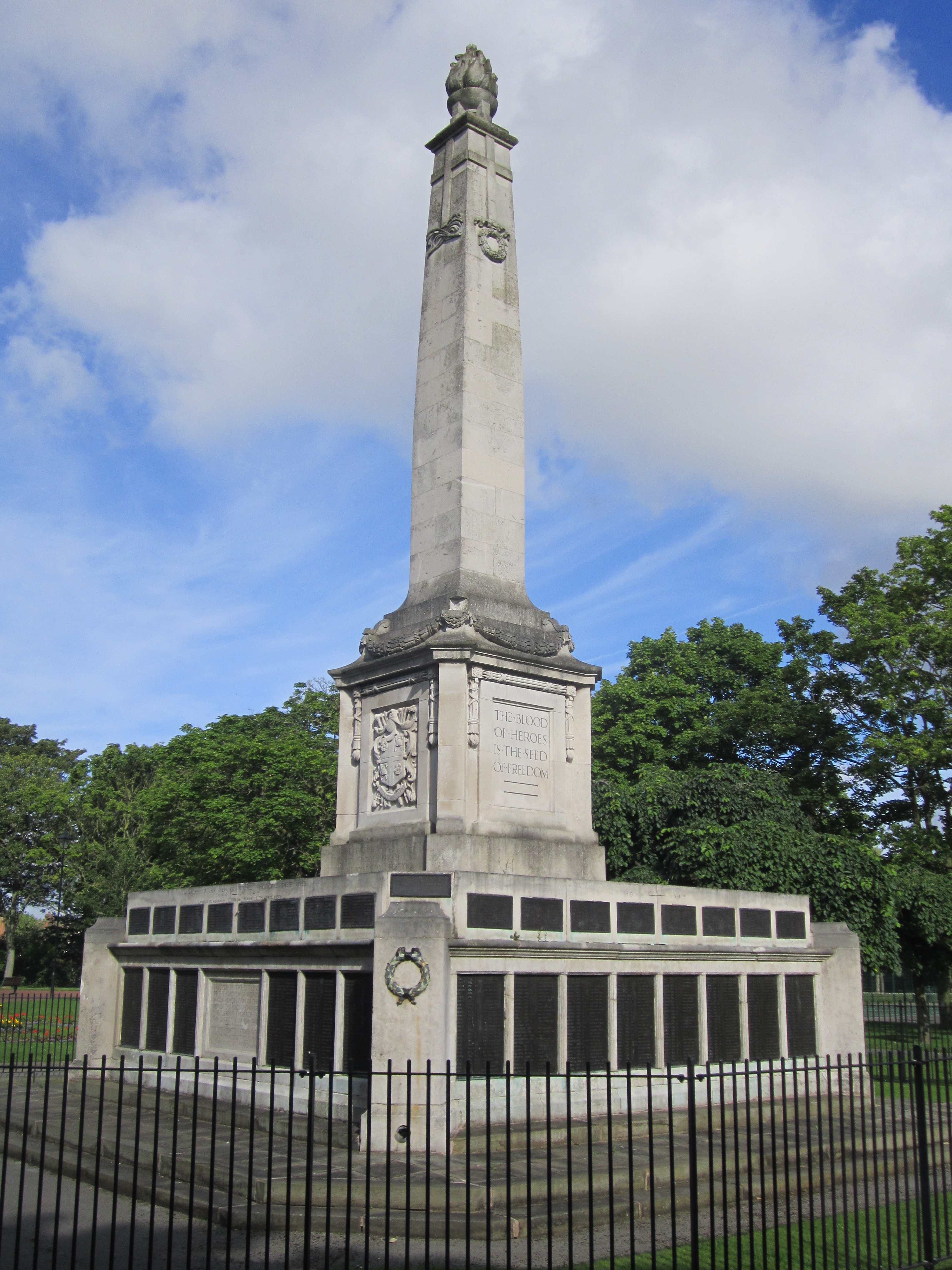 Photo taken at Victoria Park, Widnes, Cheshire, England.